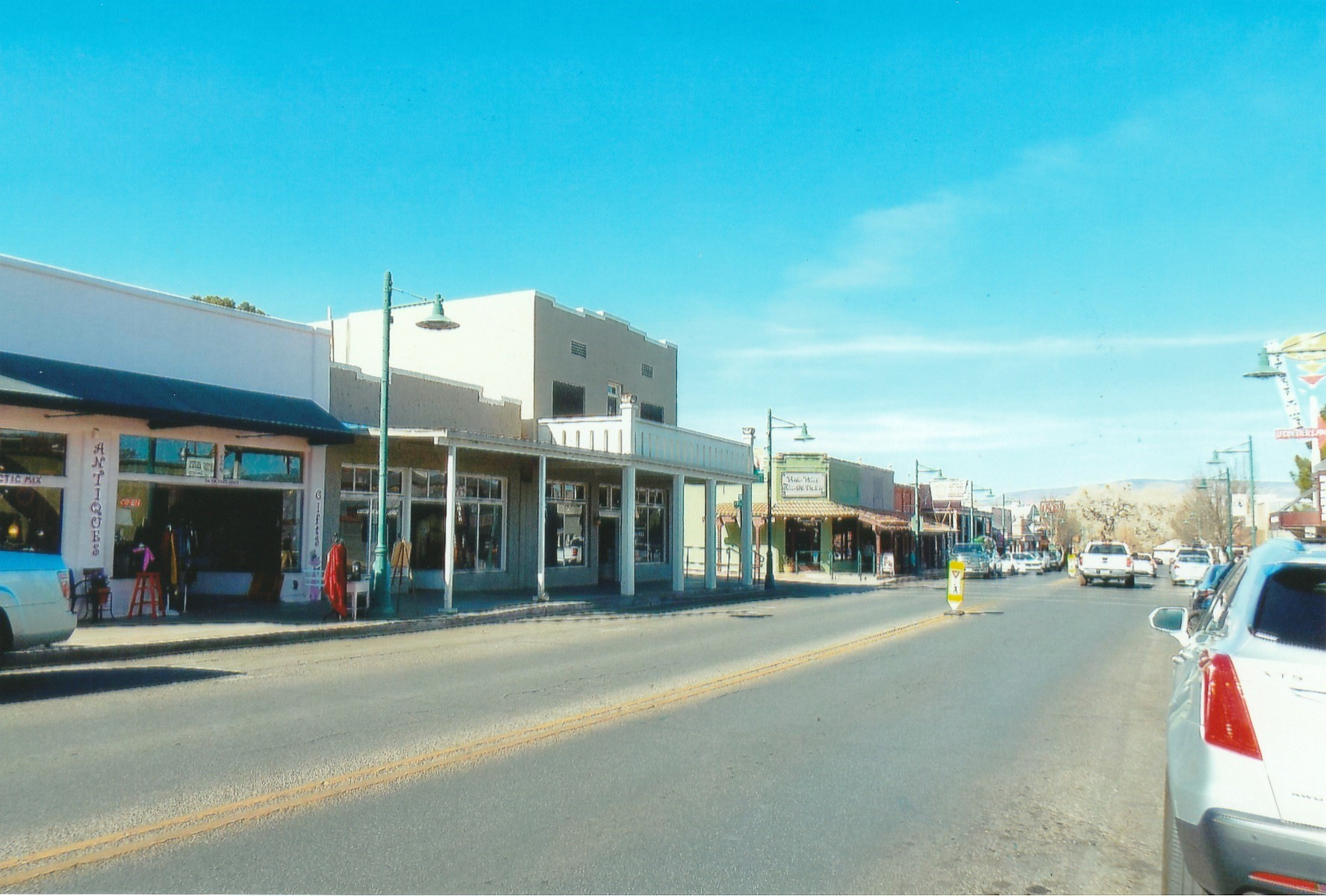 Cottonwood Historic Commercial District as viewed from Main Street. It was listed in the National Register of Historic Places in 2000, reference #00000497.